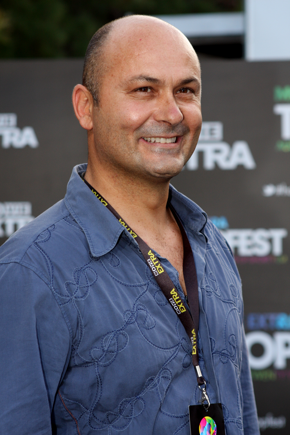 Australian actor Steve Bastoni Tropfest 2012 in Sydney, Australia